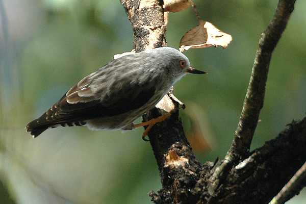 Varied Sittella (Daphoenositta chrysoptera) SE Qld race